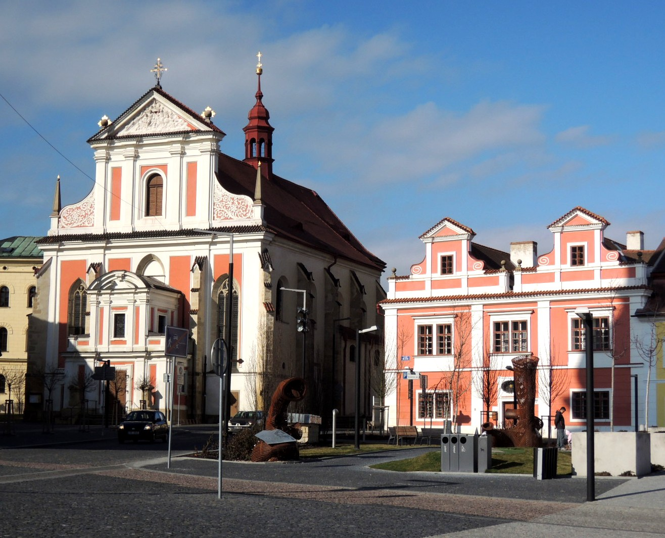 Mladá Boleslav, Assumption church and old parish house